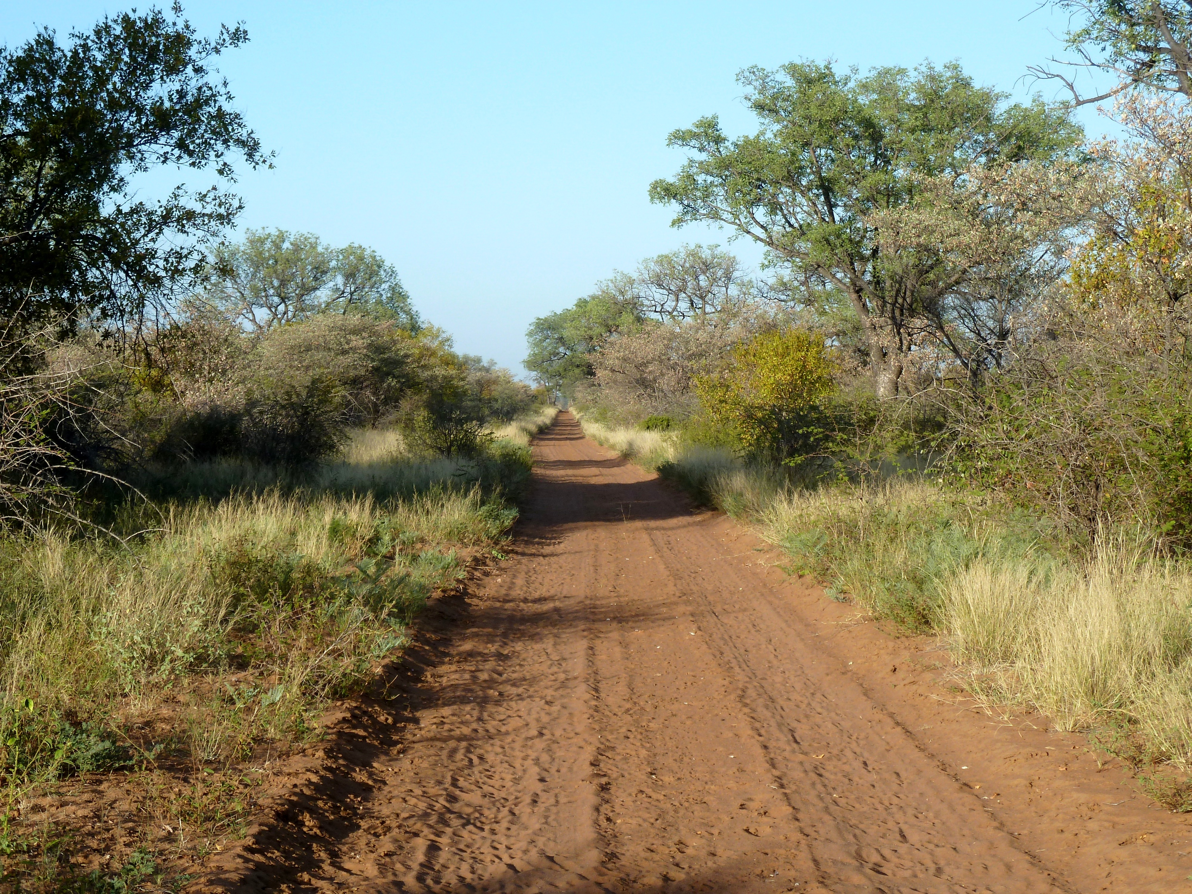 Sandy track in bushveld near Steenbokpan, Limpopo, South Africa